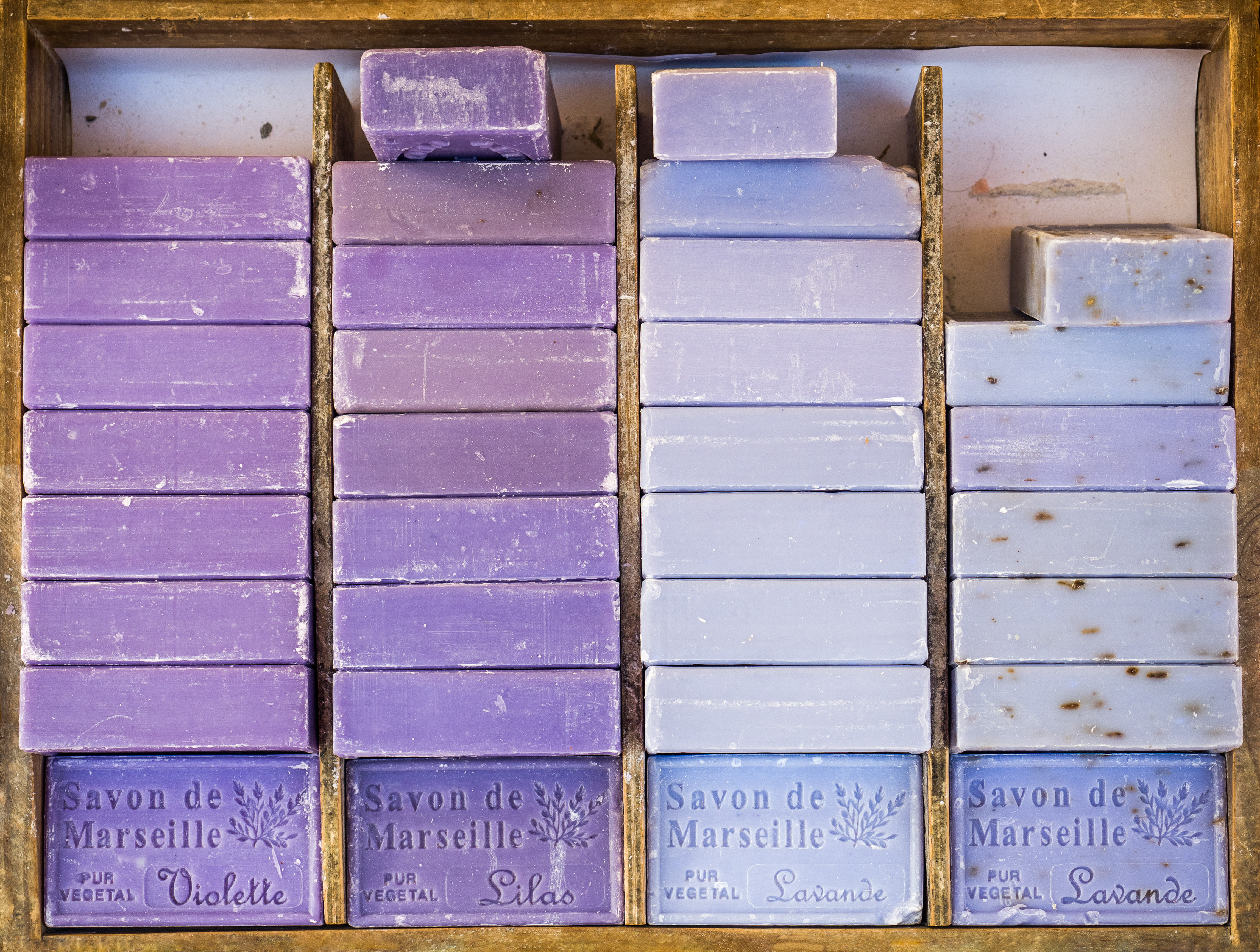 Soaps on a market in Nice